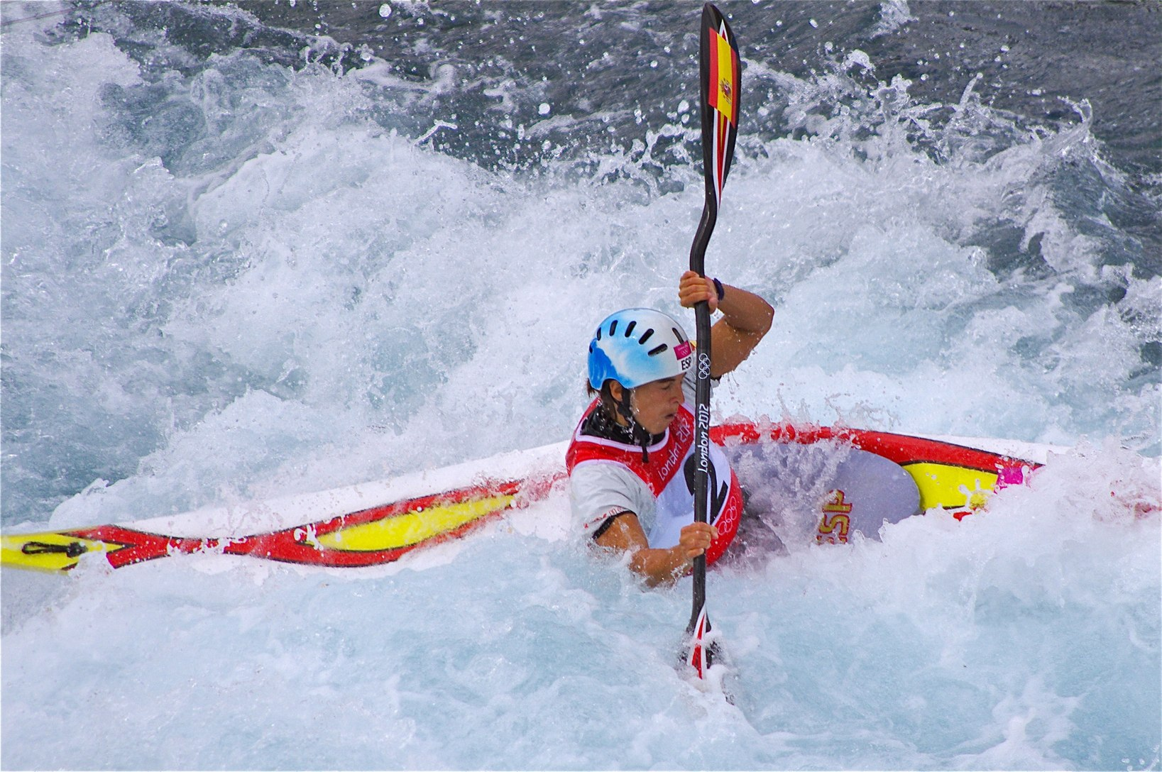 Canoeing at the 2012 Summer Olympics – Women's slalom K-1 Maialen Chourraut (ESP)